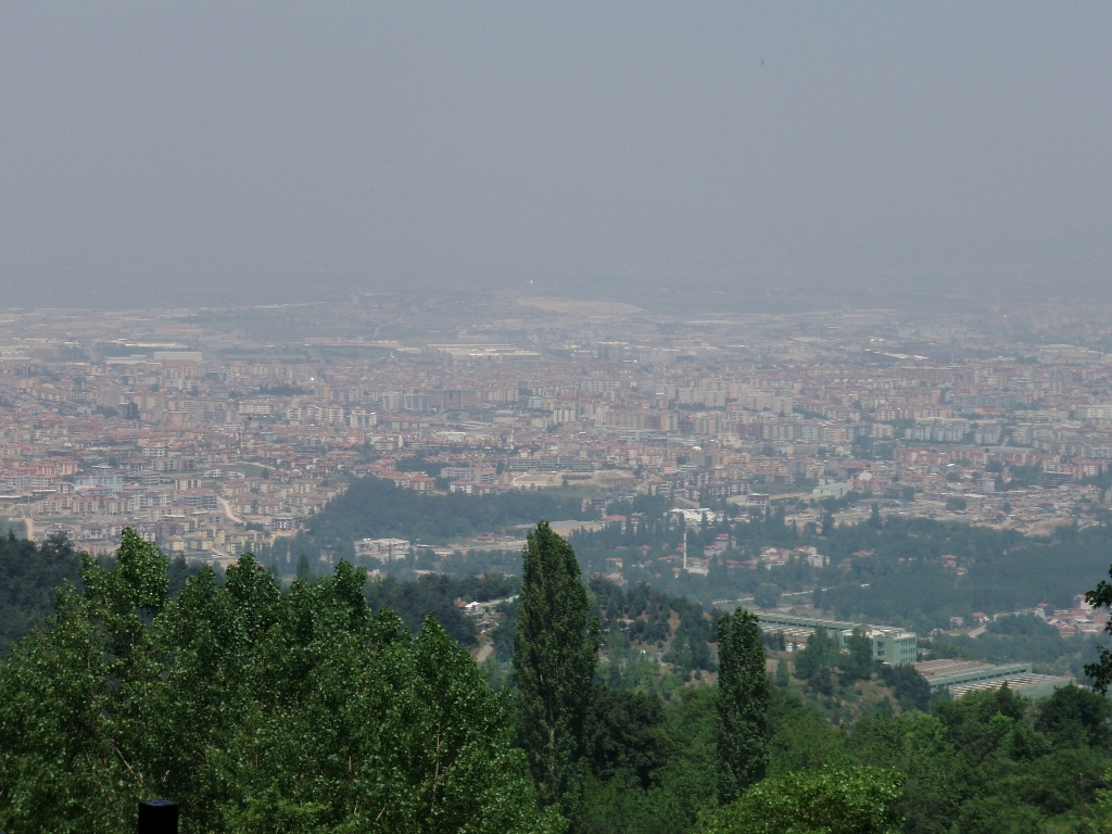 Bursa , a view of Nilüfer from mountain route.